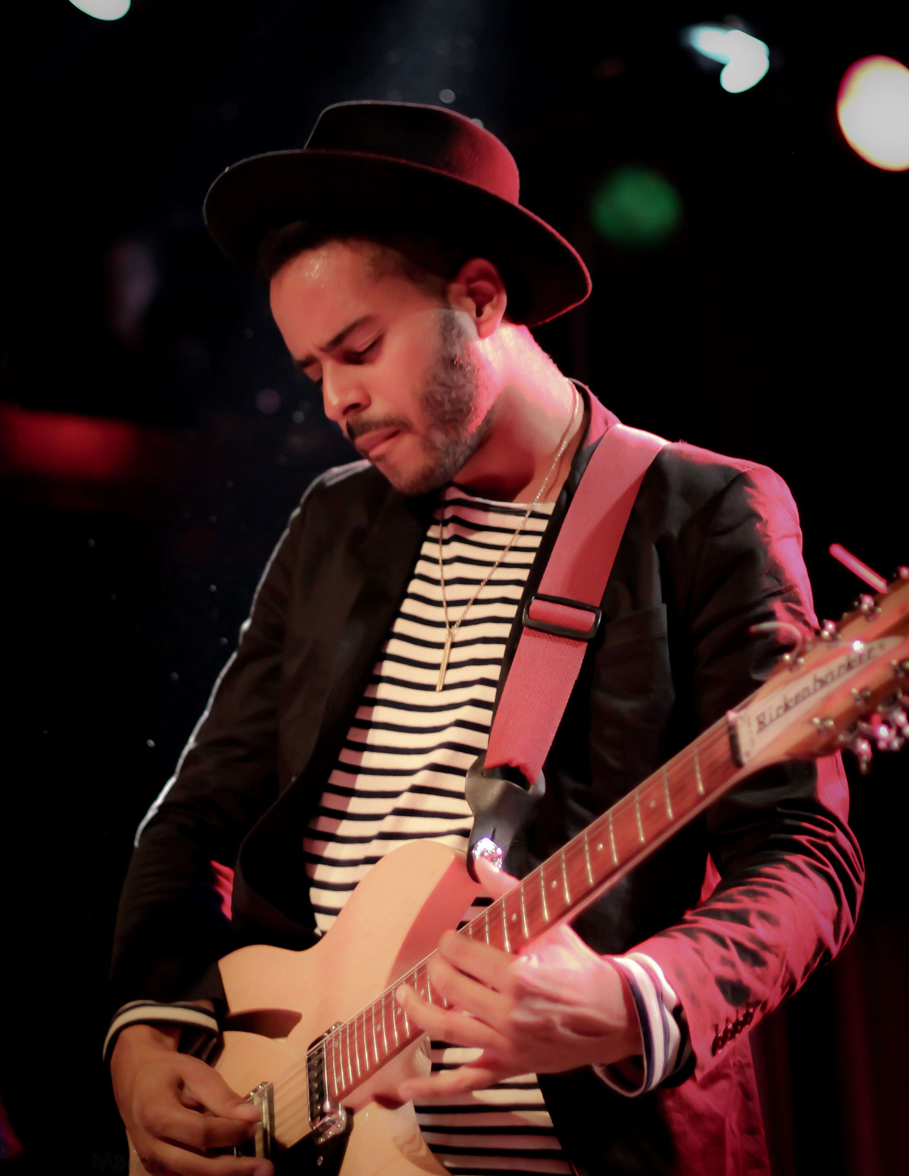 Twin Shadow at Paradise, Boston, October 6 2011